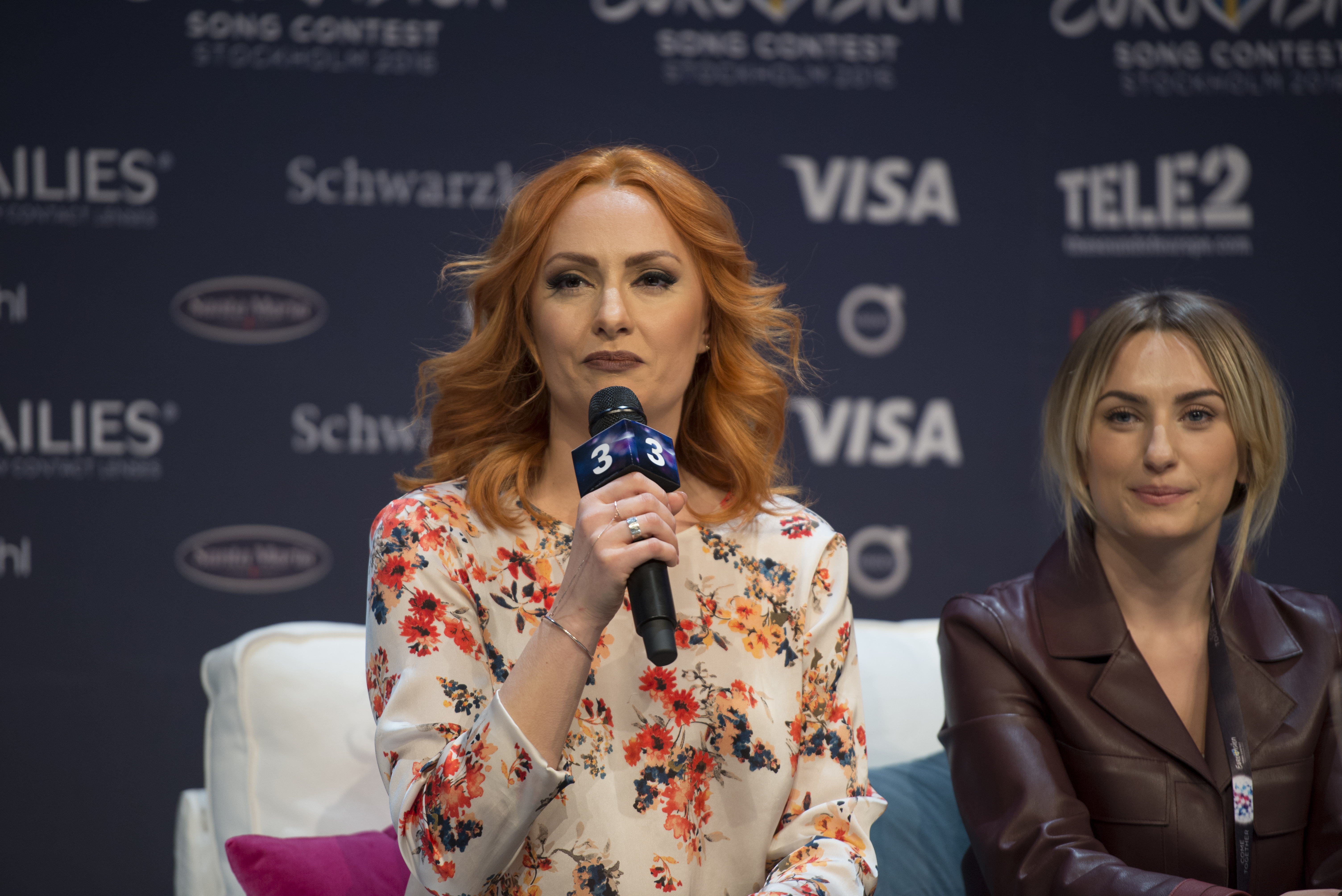 Eneda Tarifa at a Meet & Greet during the Eurovision Song Contest 2016 in Stockholm. (Help translate this text)